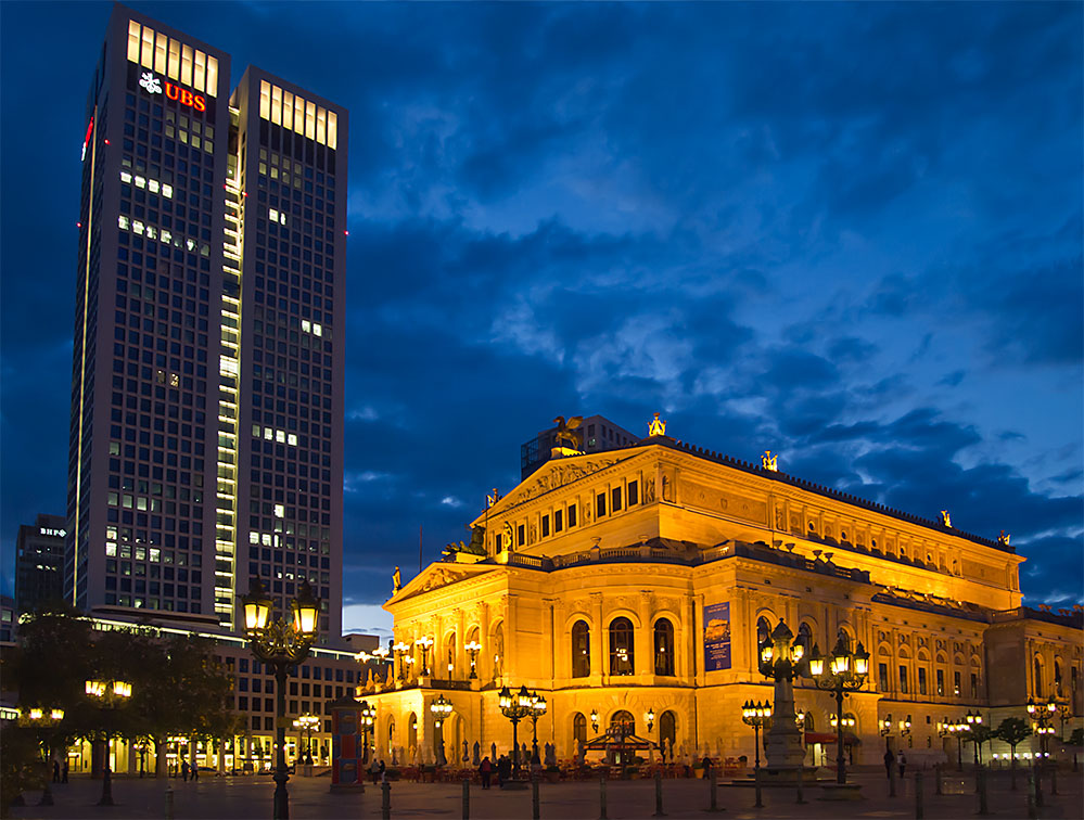 The Old Opera at the Opernplatz is a concert hall and former opera house in Frankfurt am Main, Germany. In the left there is the Opernturm (Opera Tower), it is 170 m high and has 43-storeys. it is the house of the switzerland Bank USB. (O5125385-vf3)